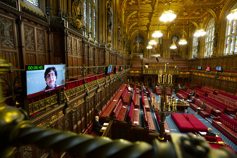 The Chamber of the House of Lords, viewed from above at the throne end, showing hybrid procedures in place.